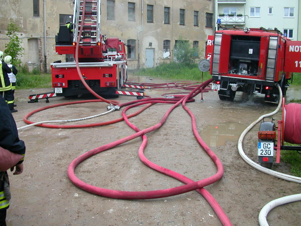 Firemen vehicles